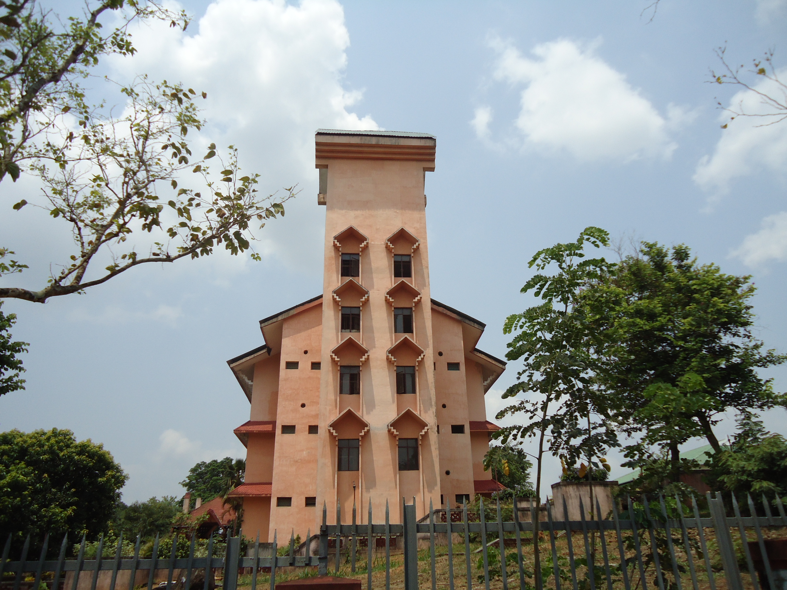 Kerala Agricultural University Library side View.